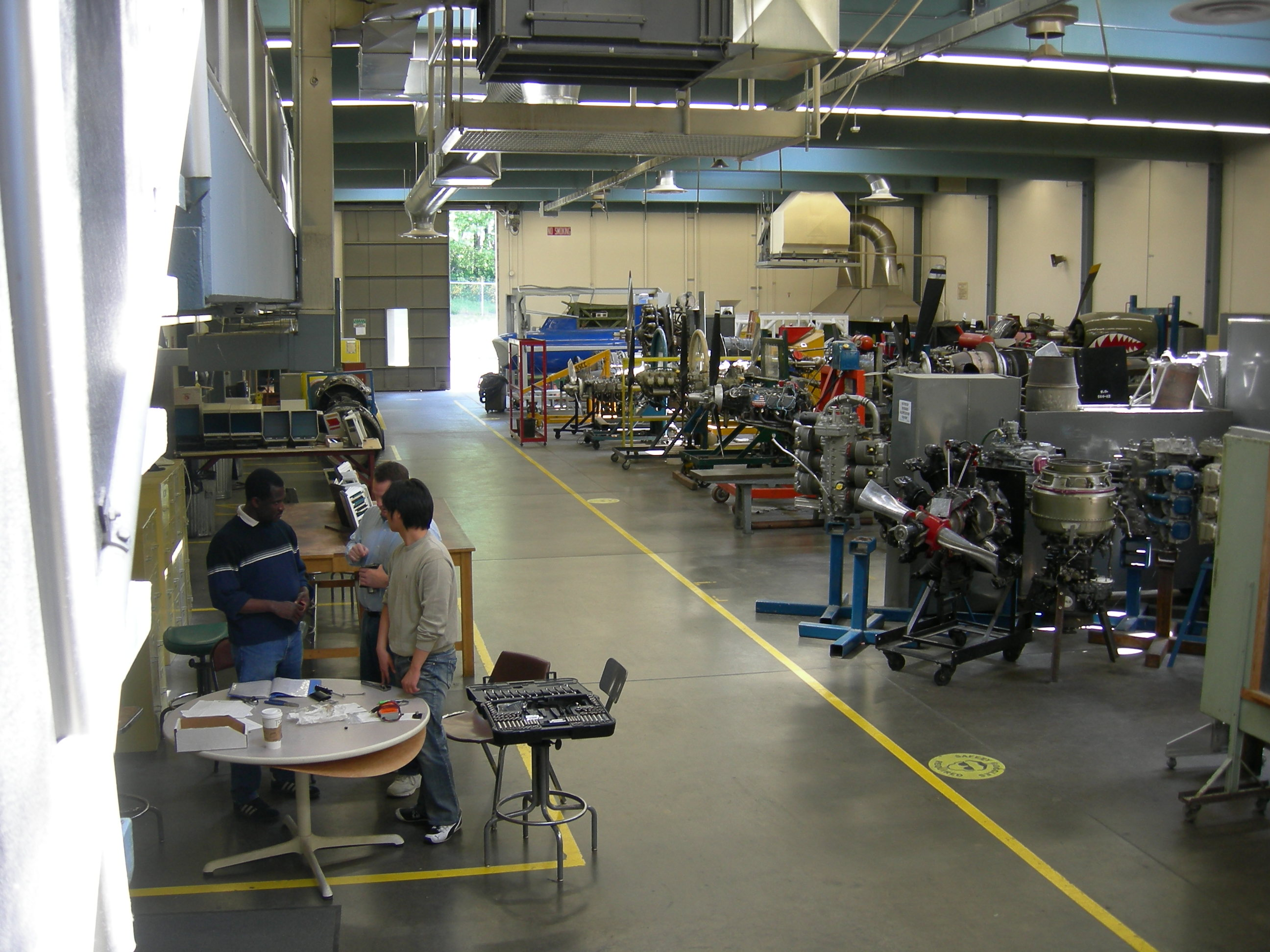 Aircraft maintenance training facility, South Seattle Community College, Seattle, Washington.